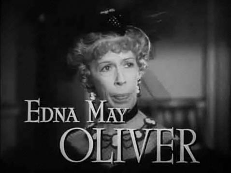 Cropped screenshot of Edna May Oliver from the trailer for the film Pride and Prejudice (1940)